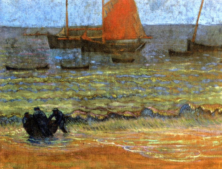 Marine view at twighlight